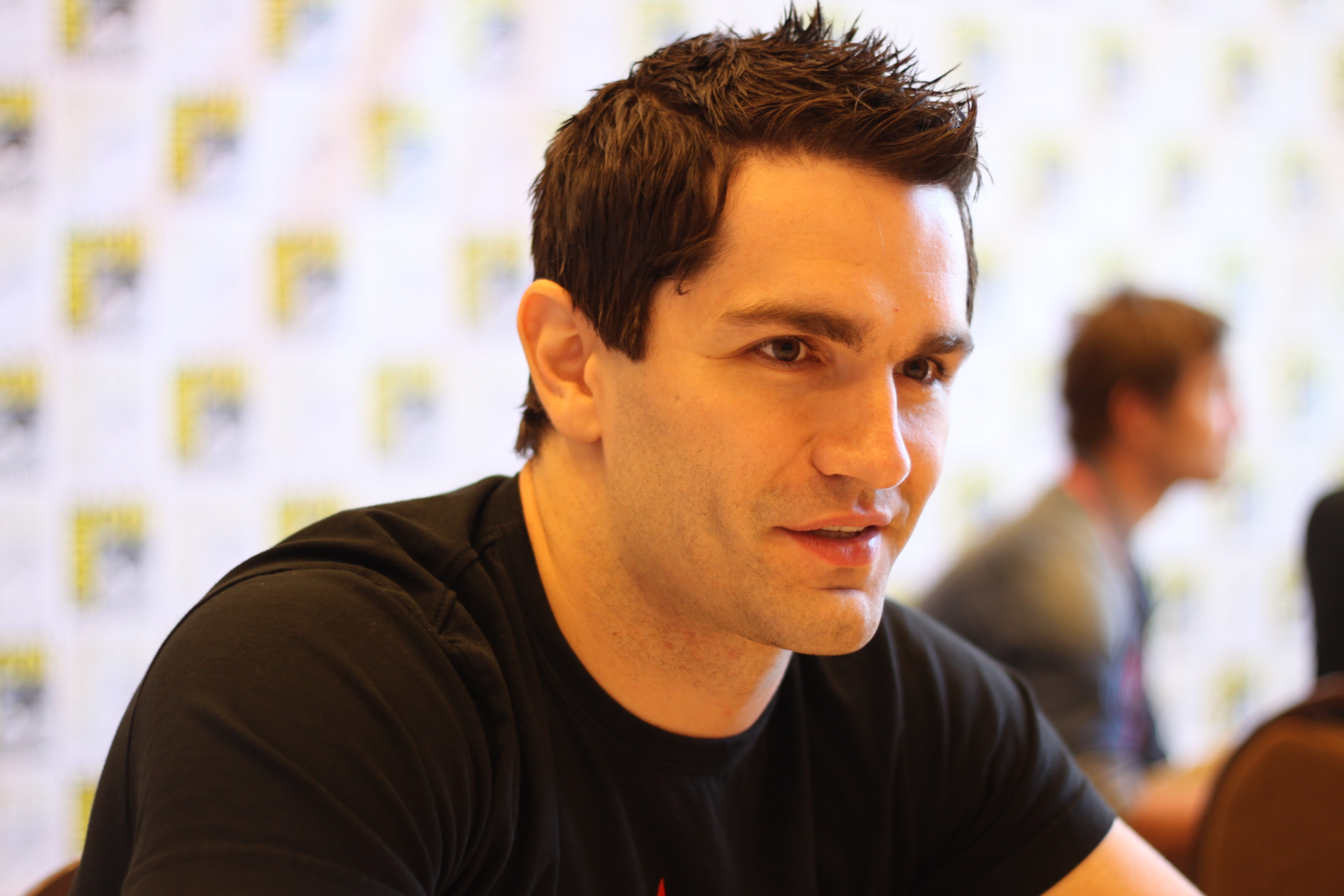 The actor Sam Witwer at San Diego Comic-Con International 2011